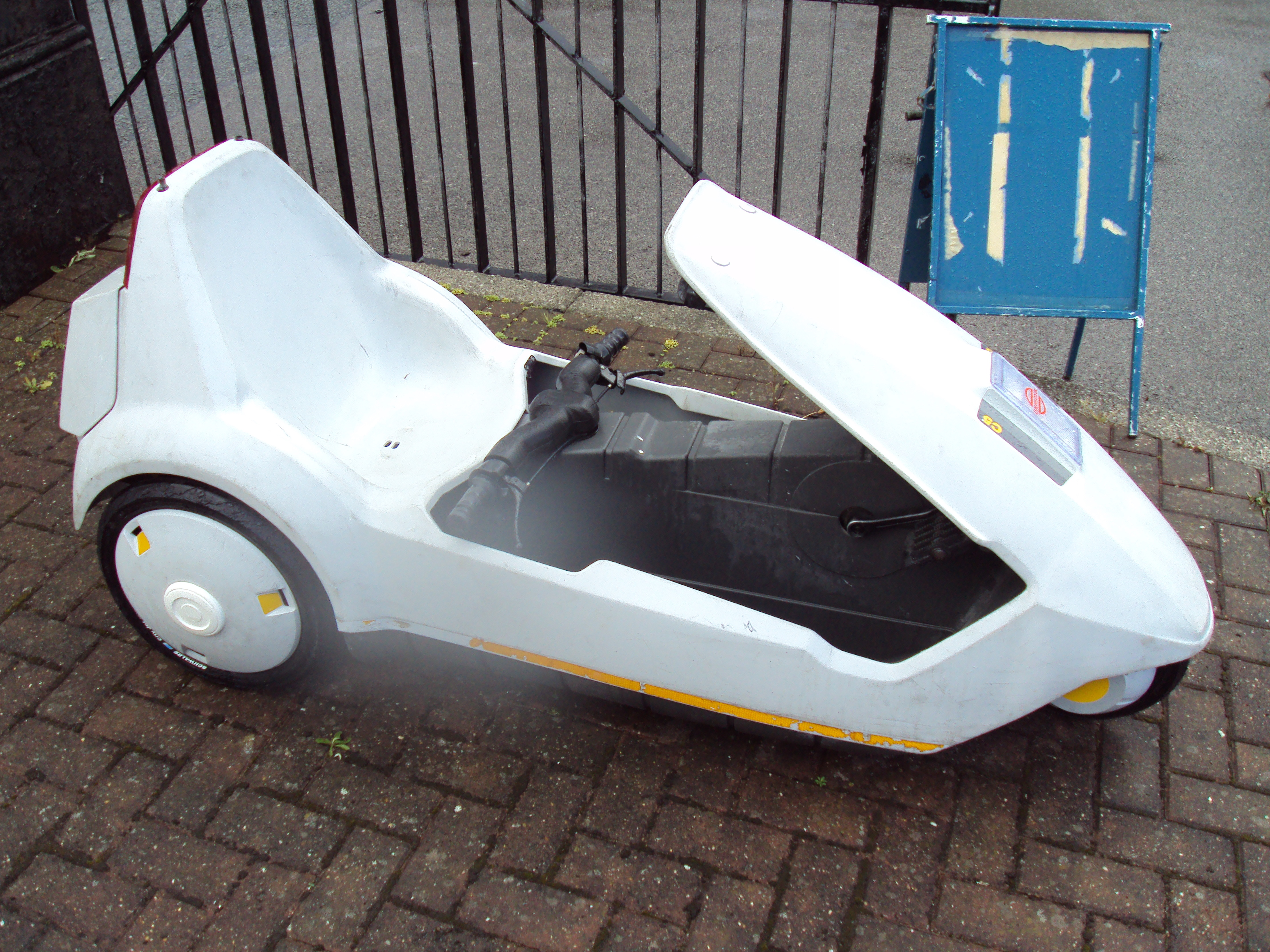 Sinclair C5 at the 2009 Wirral Bus & Tram Show, Birkenhead, Merseyside, England.